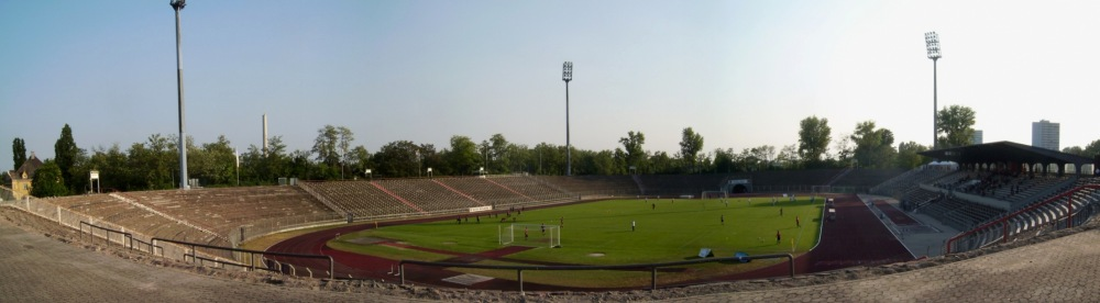 Panorama of Südweststadion in Ludwigshafen, Germany.